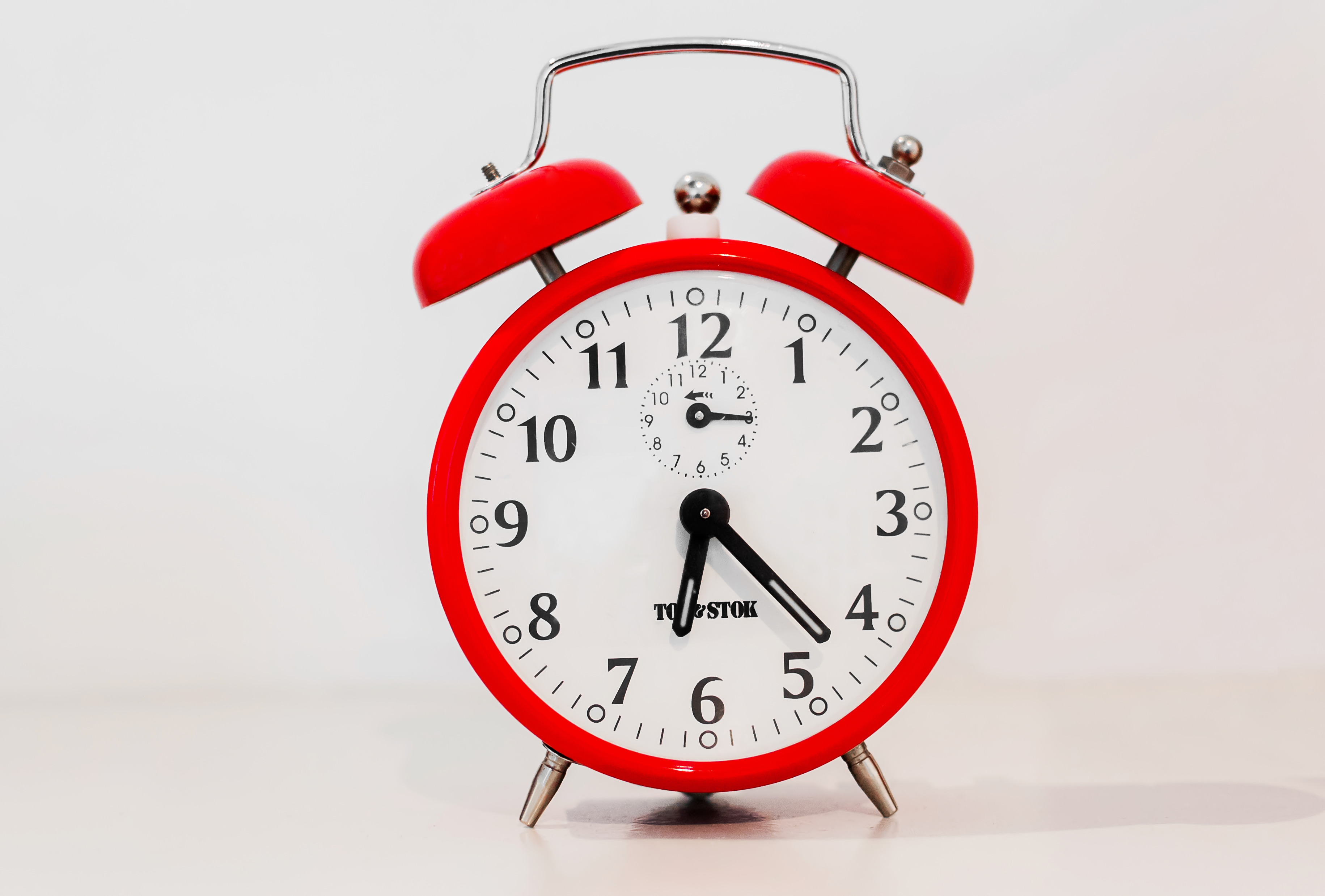 Red Clock